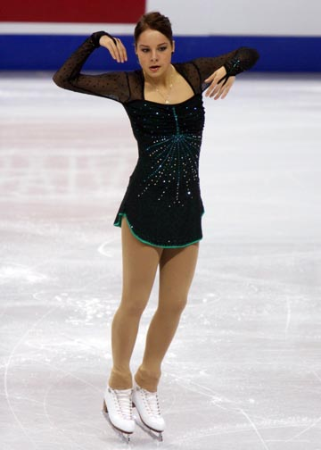 Elena Glebova at the 2008 Skate Canada.